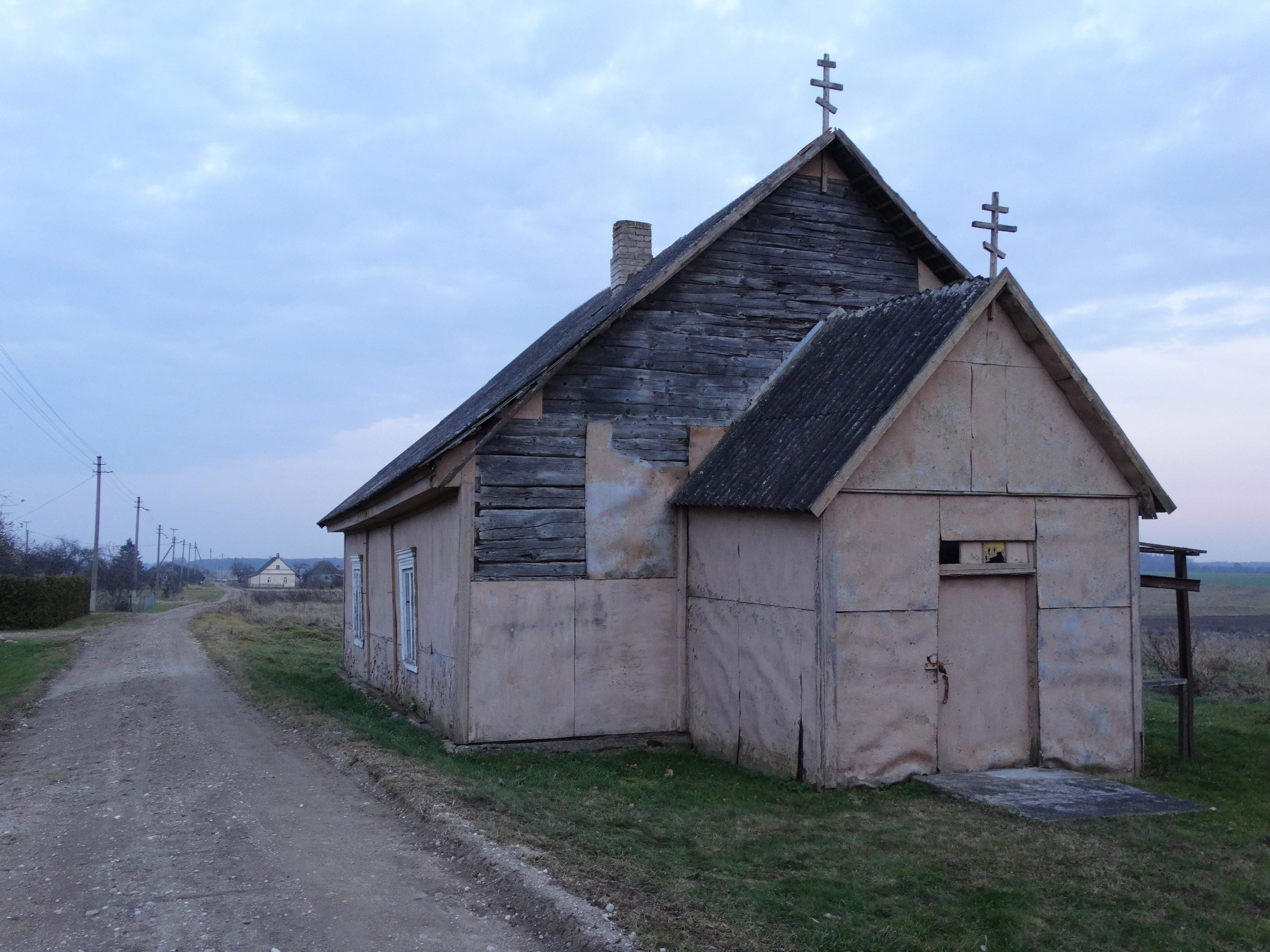 Orthodox Church of Old Believers in Kvedariškis, Biržai district, Lithuania